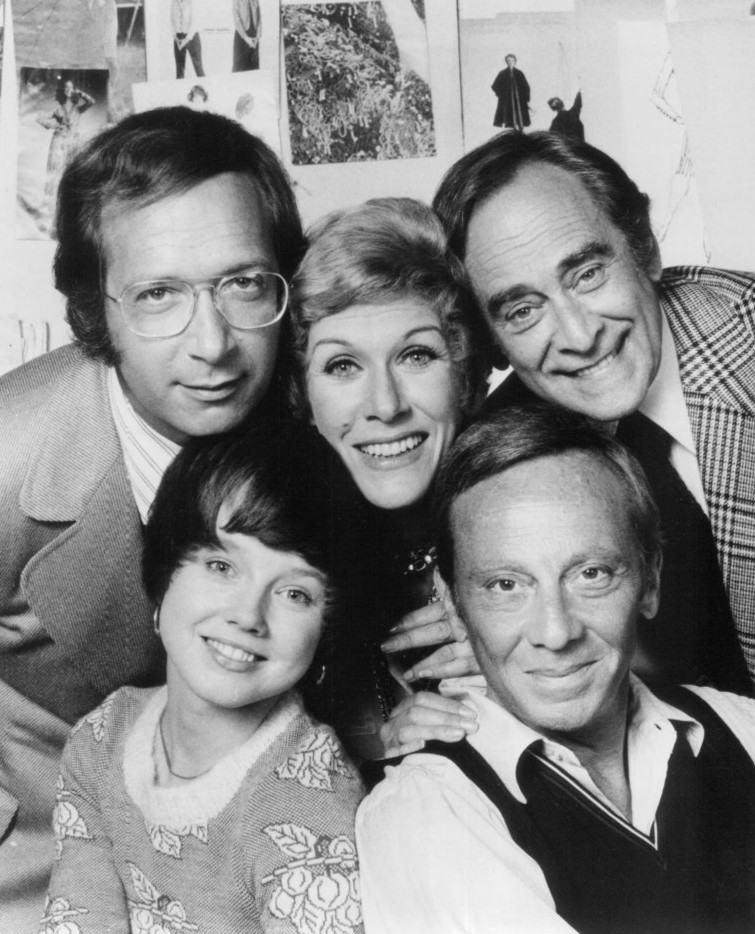 Cast of the short-lived comedy television program Needles and Pins. Front, from left: Deirdre Lenihan, Norman Fell. Back, from left: Bernie Kopell, Sandra Deel, Louis Nye.